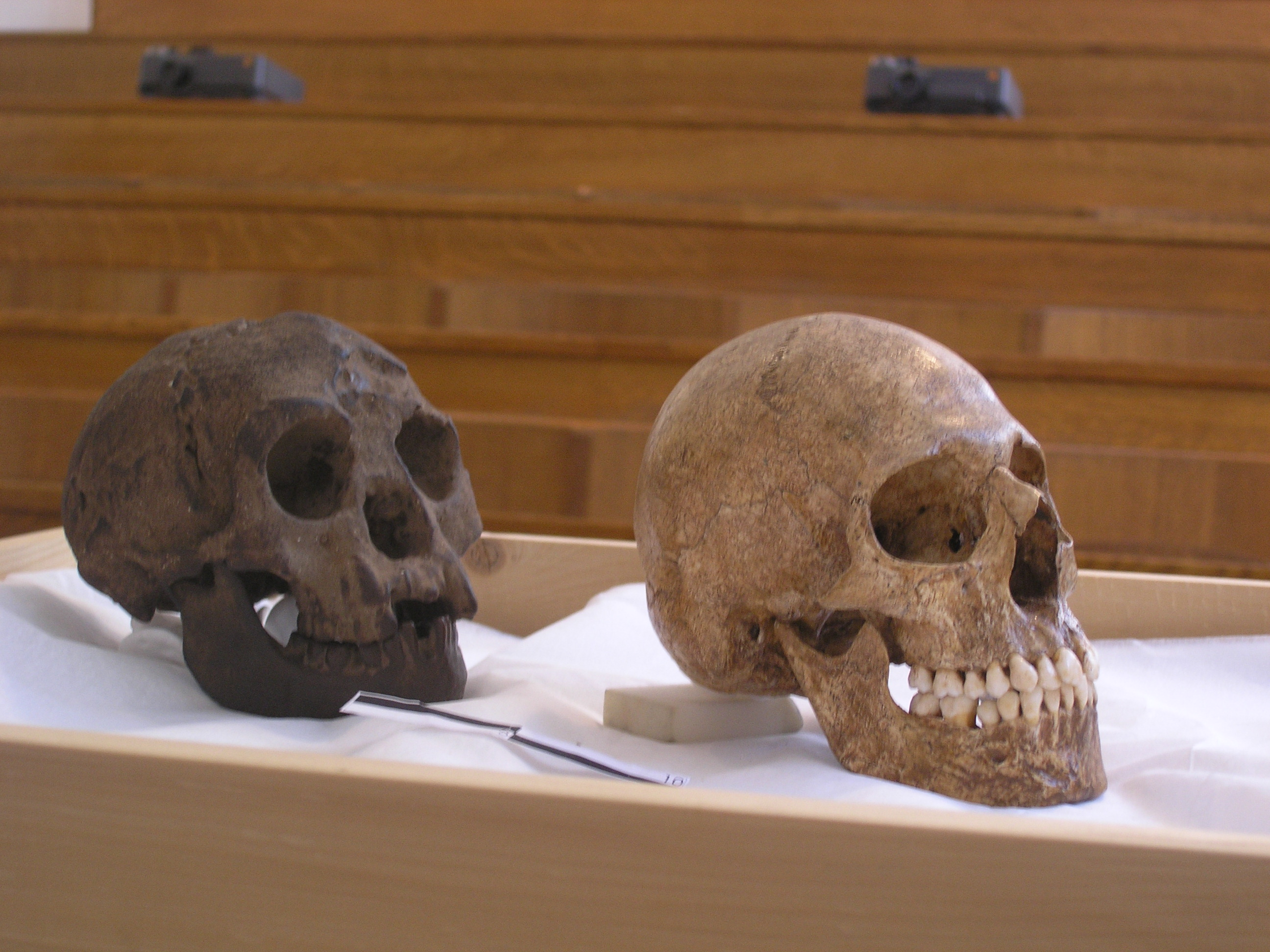 cast of Homo floresiensis compared to a microcephalic skull